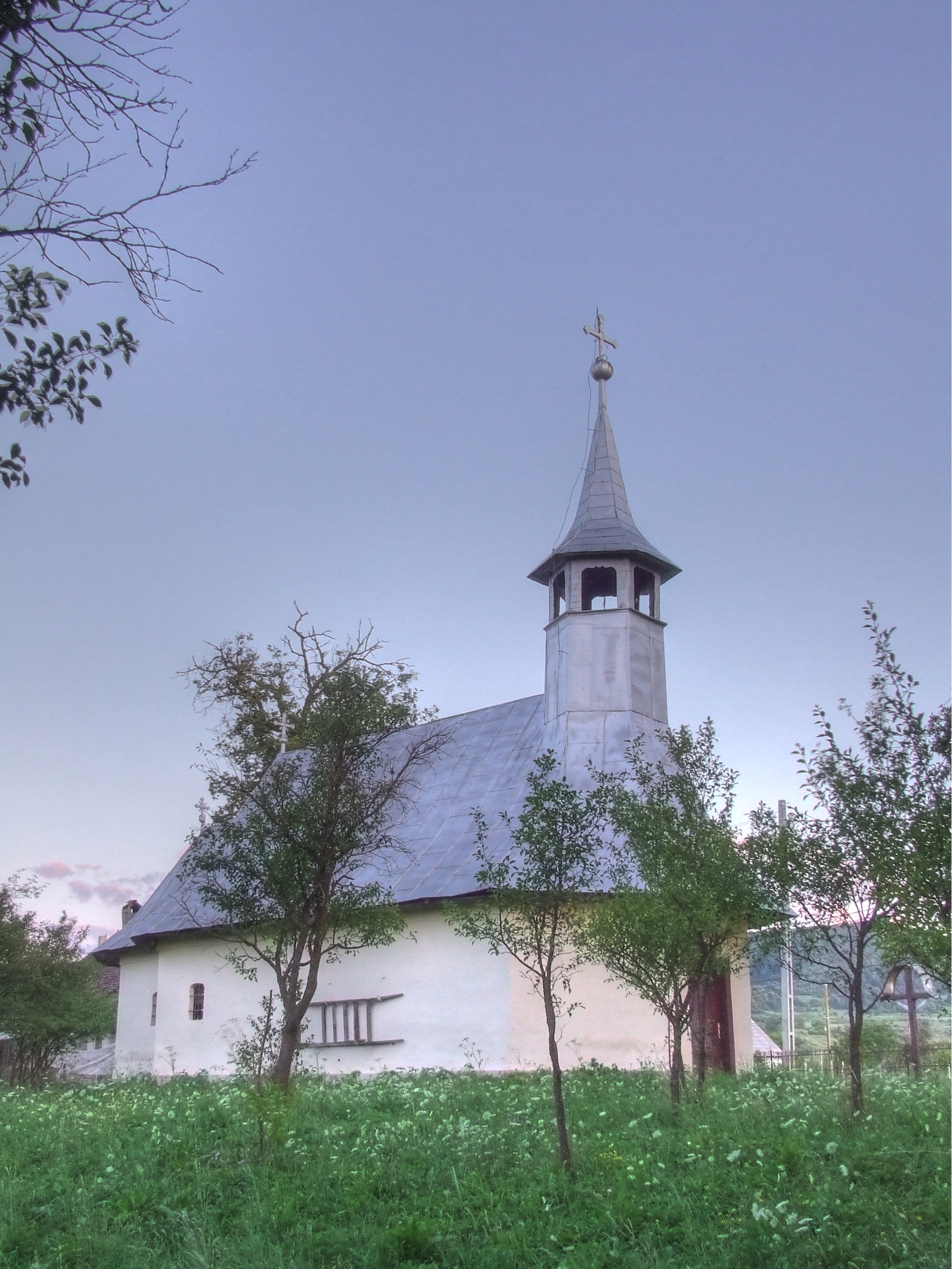 wooden church in Arcalia, Romania